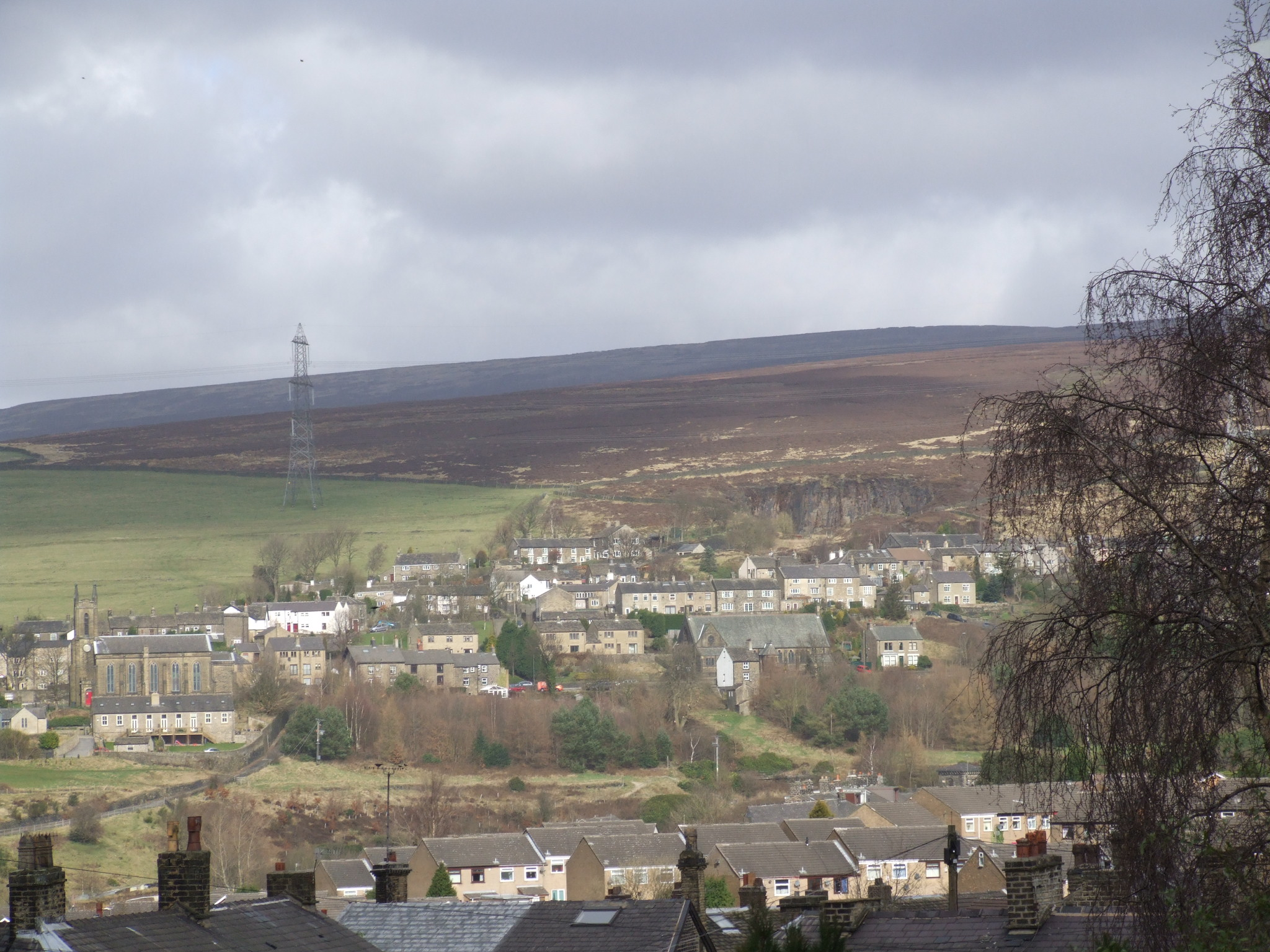 Tintwistle is a village in Longdendale Derbyshire on the edge of Greater Manchester. Tintwistle from Hadfield. - Google Maps - Google Earth